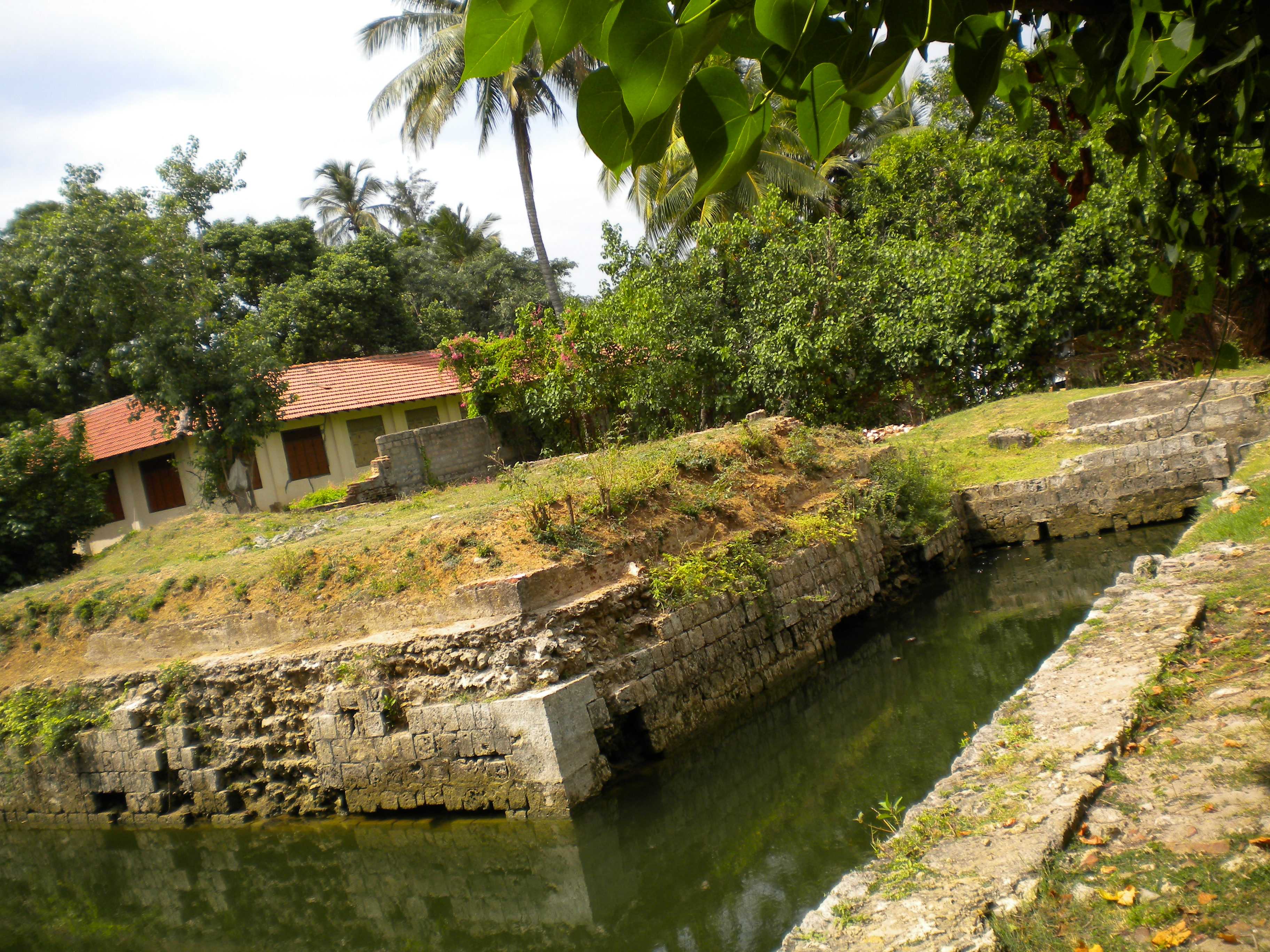 The tank was built by Cinkai Ariyan Cekaracacekaran